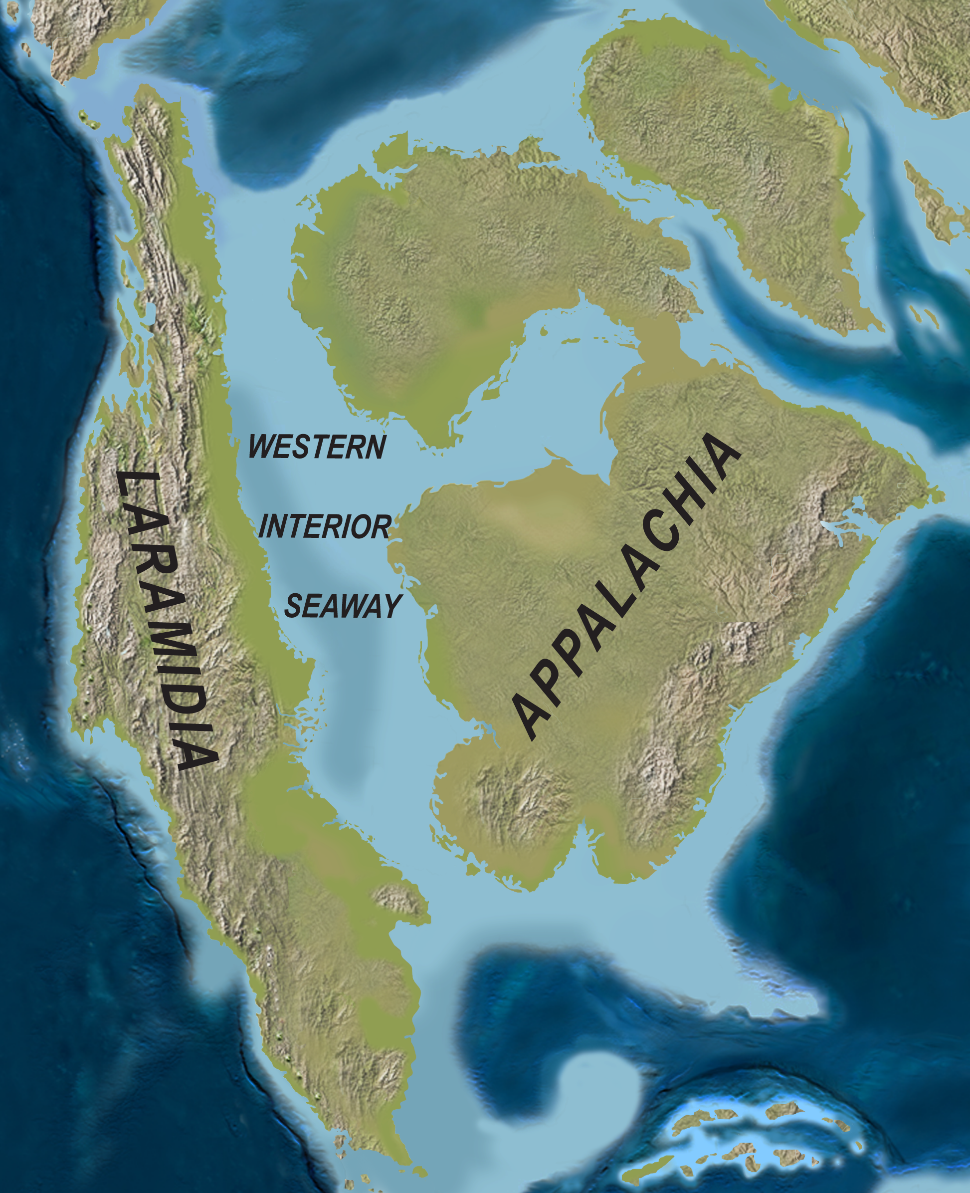 Map of North America with the Western Interior Seaway during the Campanian (Upper Cretaceous). Paleogeography of North America during the late Campanian Stage of the Late Cretaceous (∼75 Ma). Modified after Blakey.